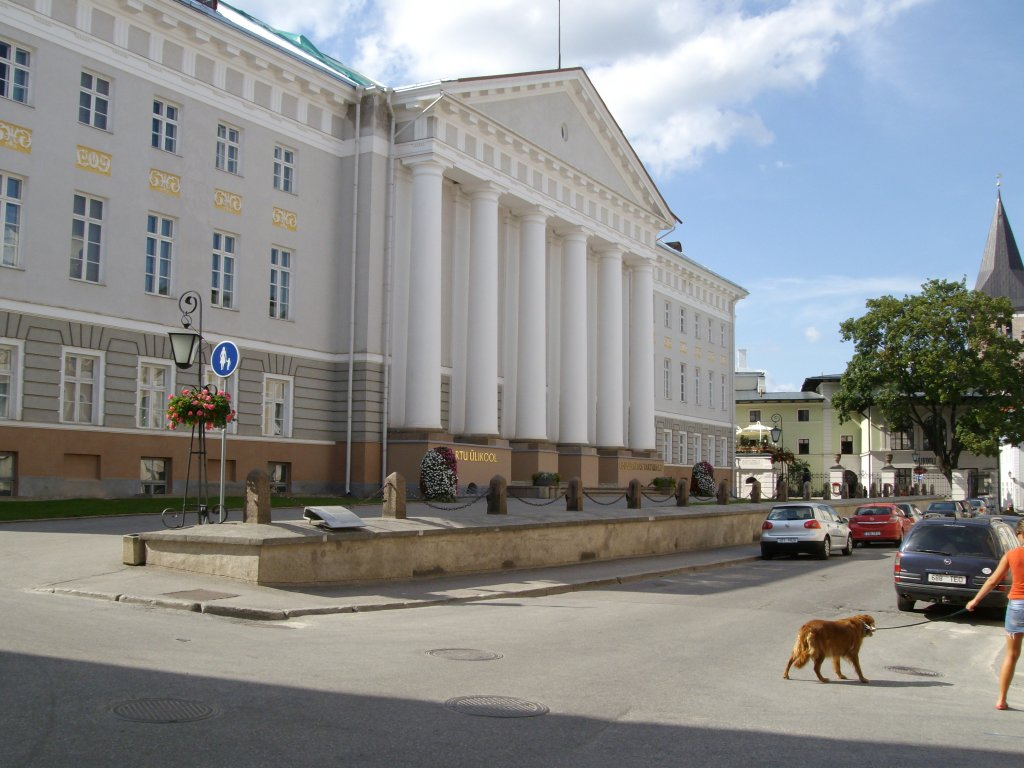 Main building of University of Tartu.